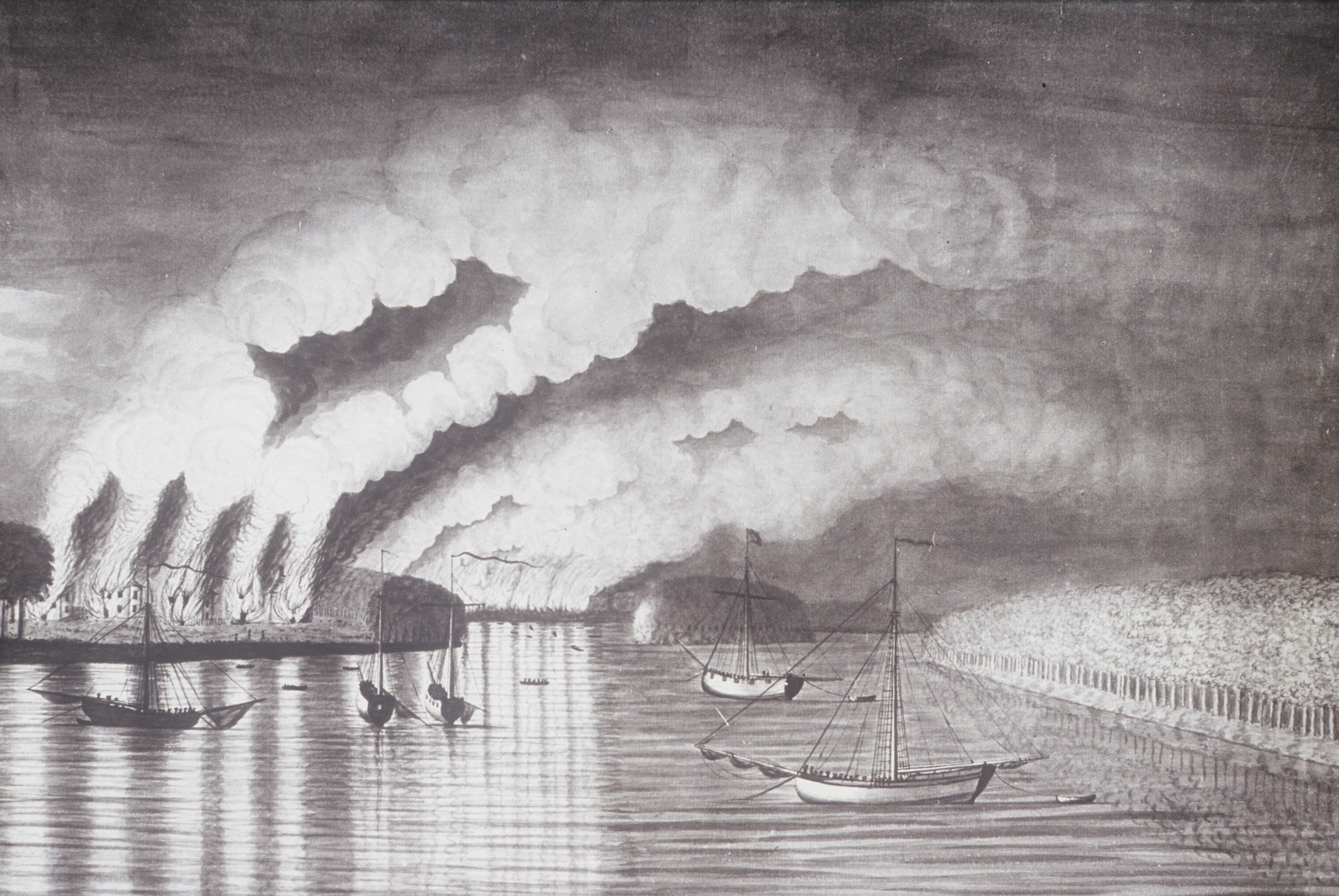 This is the only contemporaneous image of the Expulsion of the Acadians, showing the raid on Grimross (present-day Gagetown, New Brunswick).